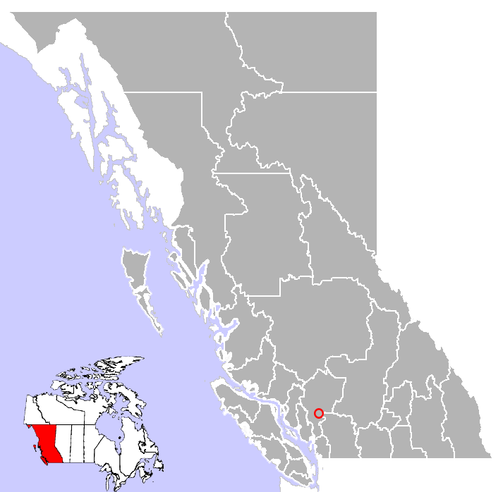 Whistler, British Columbia location.